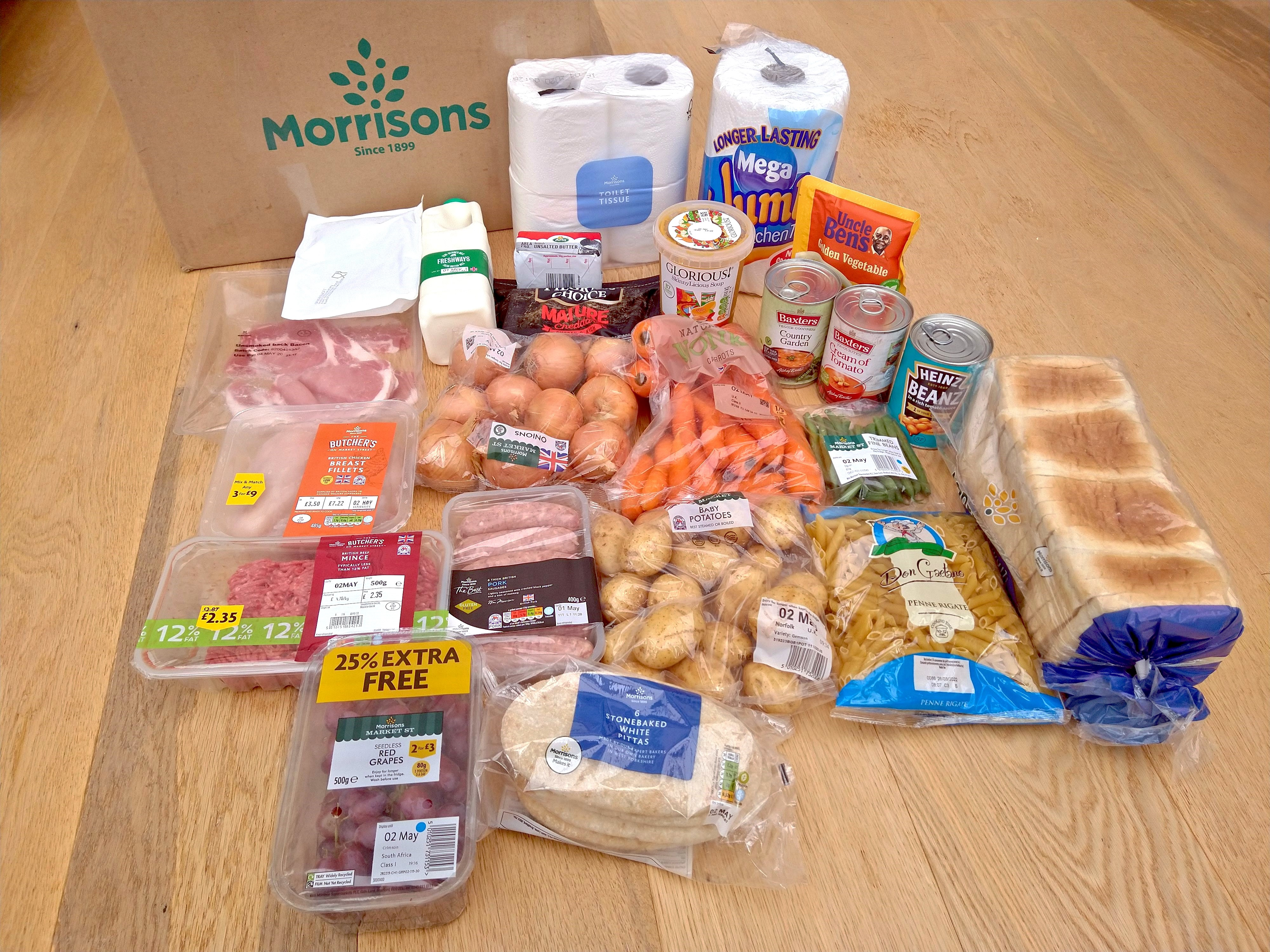 Morrisons "meat eaters" basic food parcel to feed two people for one week